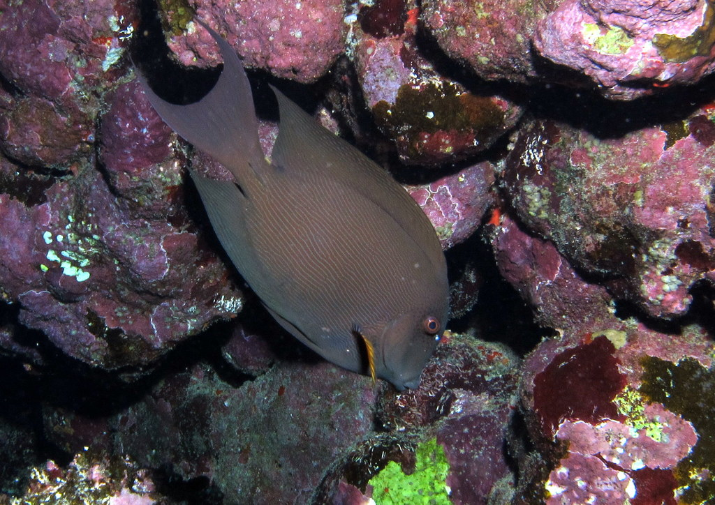 Lined Bristletooth at Halahi Reef, Red Sea, Egypt